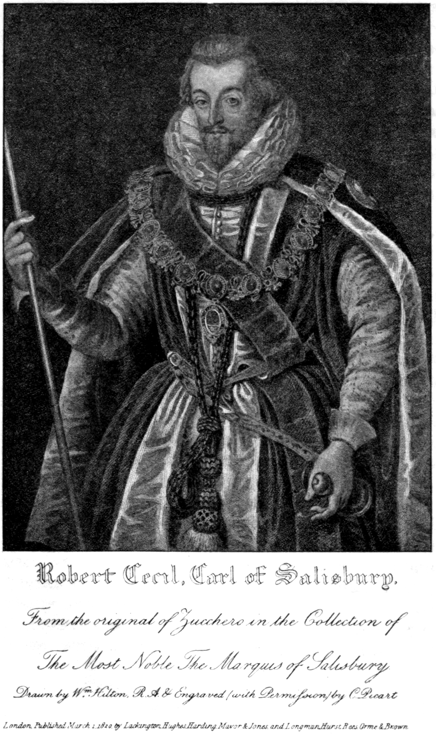 page 194